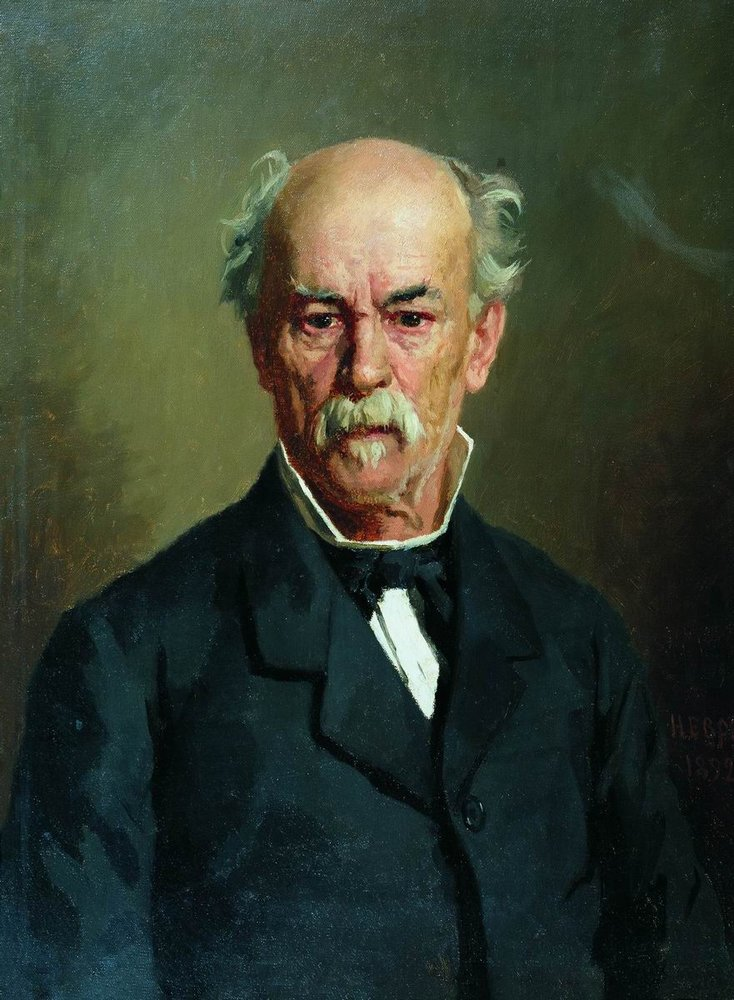 Portrait of Gerasim Kharitonenko